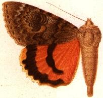 PLATE CXCVIII.